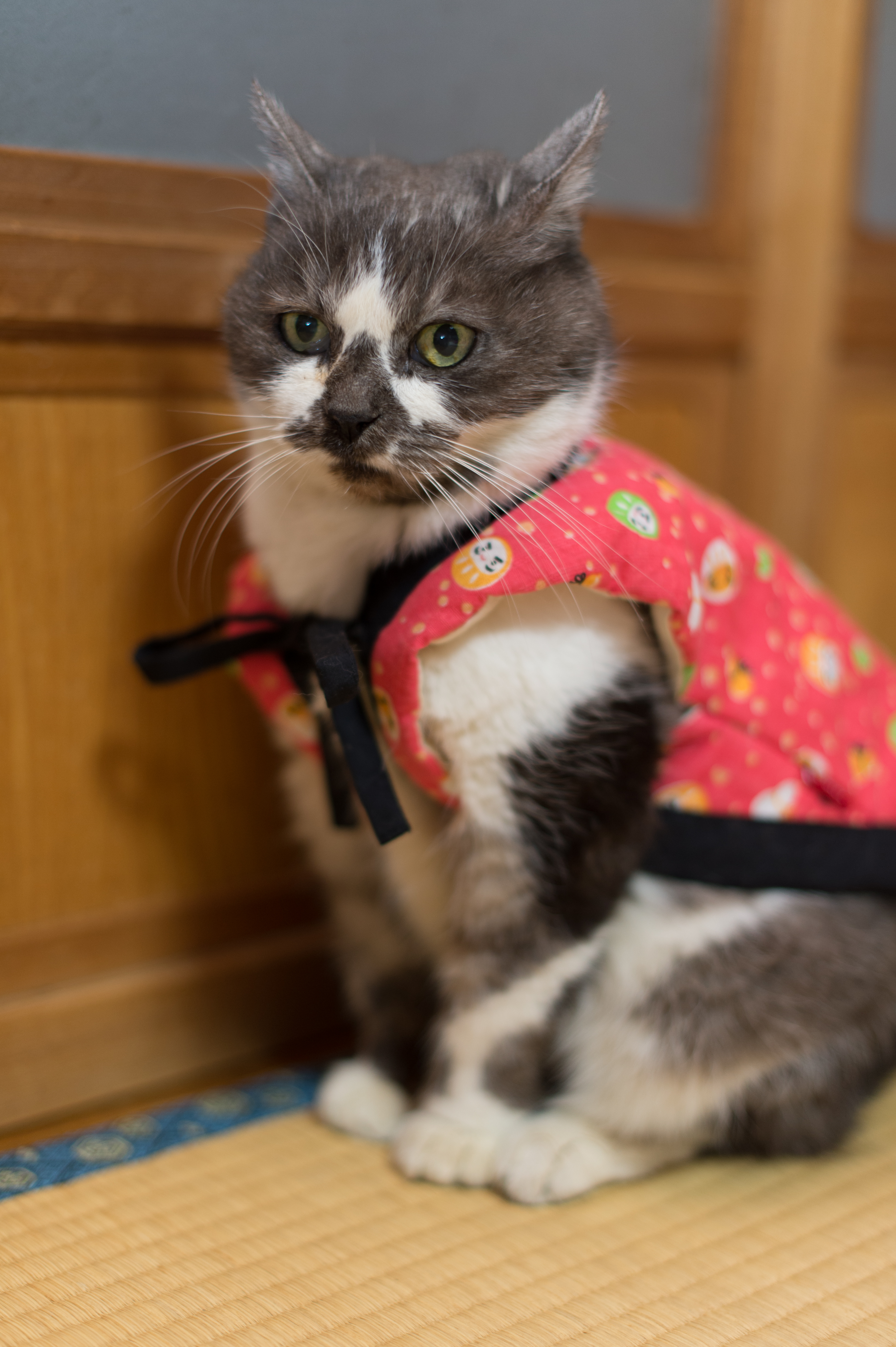 Chanchanko is a traditional Japanese outfit for cold weather for human, usually not for animals. There are some prints of Darumas on it. 元々子犬用のちゃんちゃんこですが、みやこちゃんにもぴったりです。 [ Nikon D4, Nikon AF-S NIKKOR 50mm f/1.4G, f/1.8, 1/80sec, ISO500, SB-910 AF Speedlight, Lightroom 4.3 ]